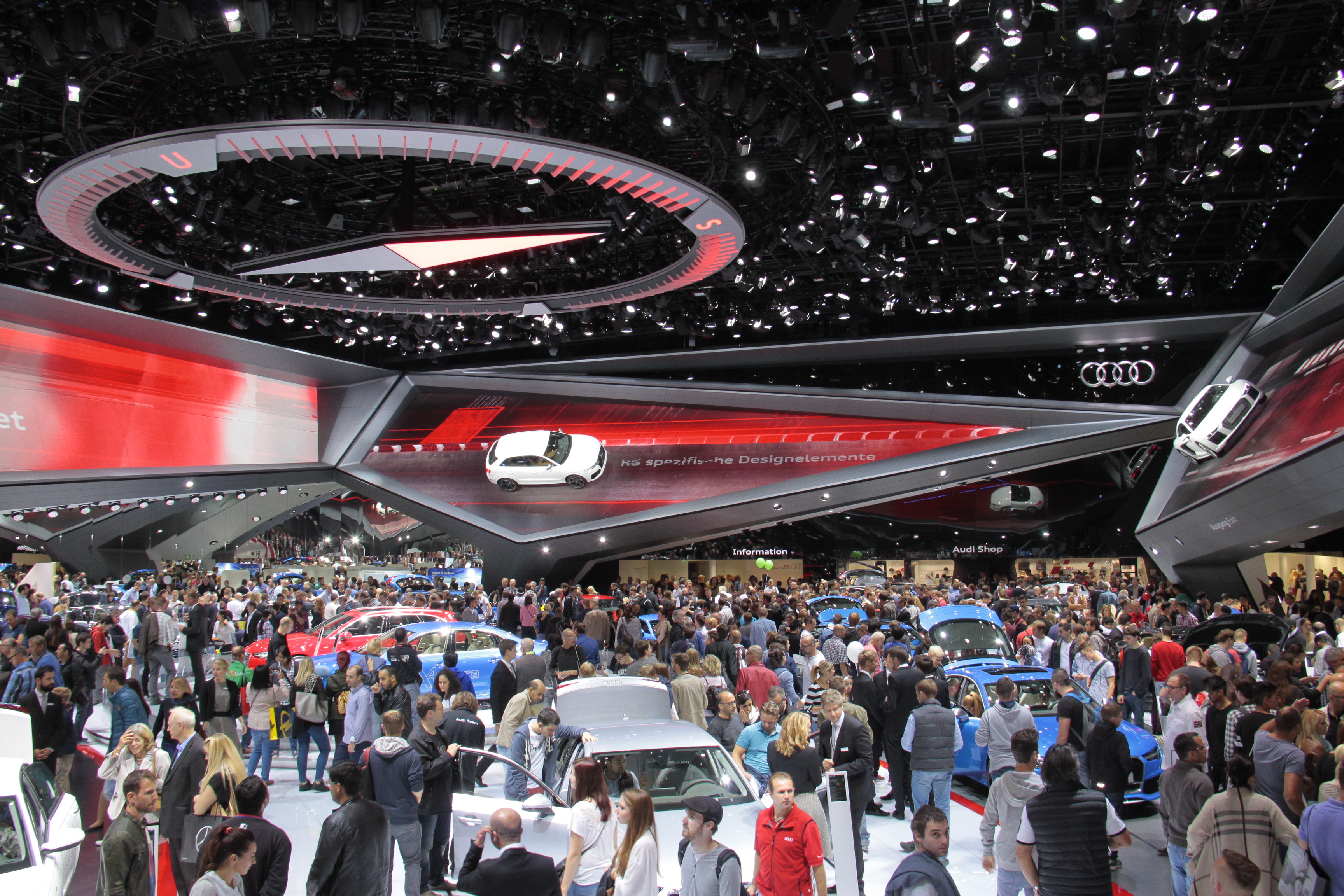 View of the interior of the Audi pavilion at IAA 2015